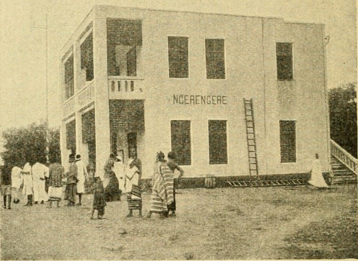 Ngerengere